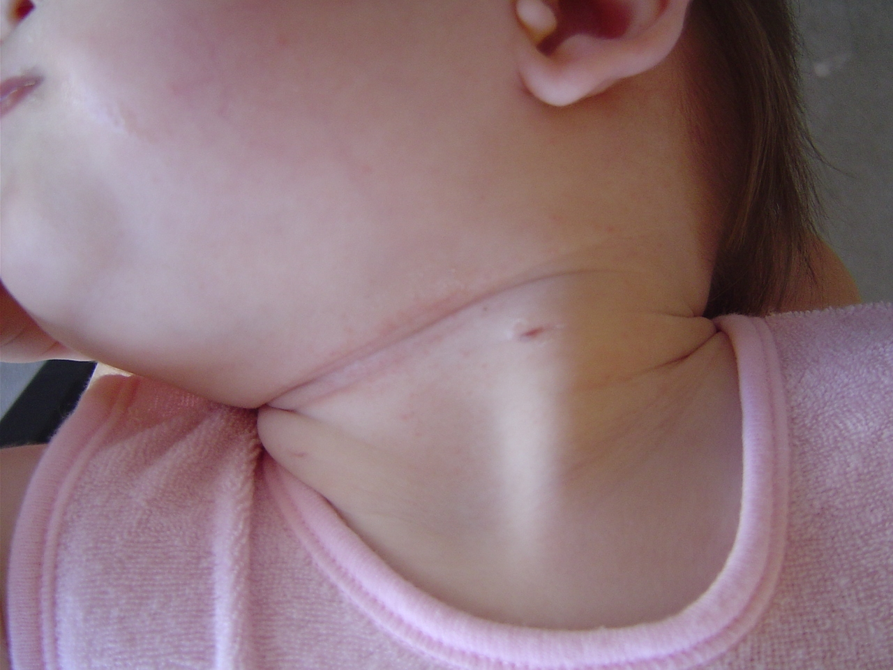 BOR Syndrome, neck fistulas